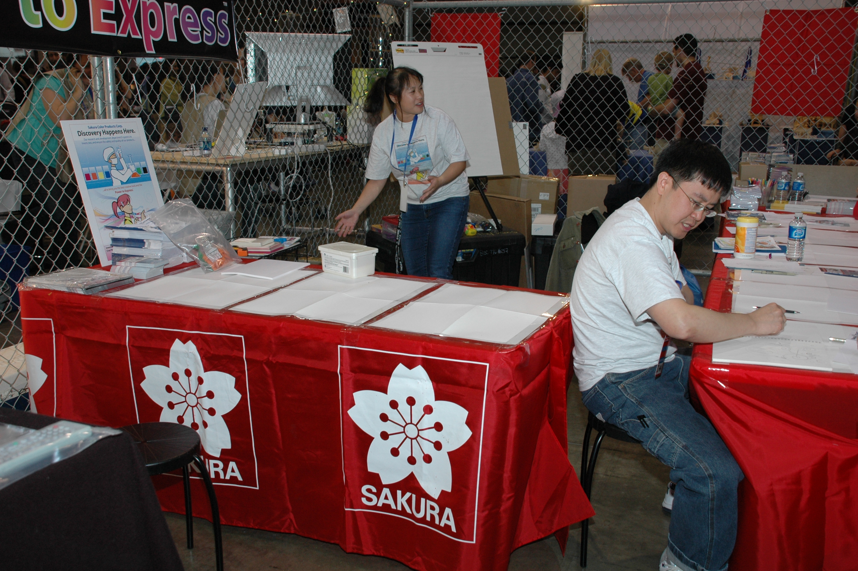 Maker Faire 2008, San Mateo - Sakura Color Products booth